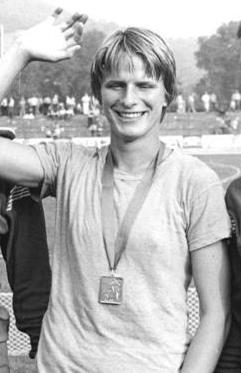 Factual corrections and alternative descriptions are encouraged separately from the original description. Additionally errors can be reported at this page to inform the Bundesarchiv. Original historic description: Ines Gaipel, Bärbel Wöckel, Ingrid Auerswald, Marlies Göhr ADN-ZB Thieme 9-8-81 Bez. Gera-32. DDR-Meisterschaft der Leichtathletik: Das Frauenquartett mit Ines Gaipel, Bärbel Wöckel, Ingrid Auerswald und Marlies Göhr (vlnr) vom SC Motor Jena siegte im 4x-100-Meter-Staffel-Lauf der Frauen in 42,35 Sekunden.